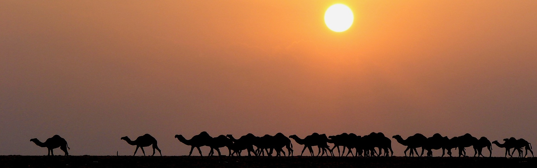 Camels back to barn before sunset